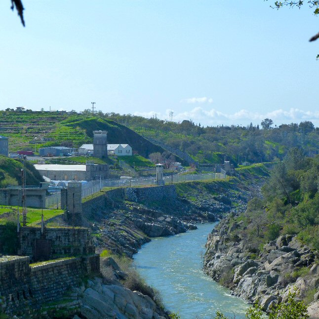 Folsom Prison, North side near the American River, Folsom, CA; view along the American River gorge, just downstream from the Folsom Dam.